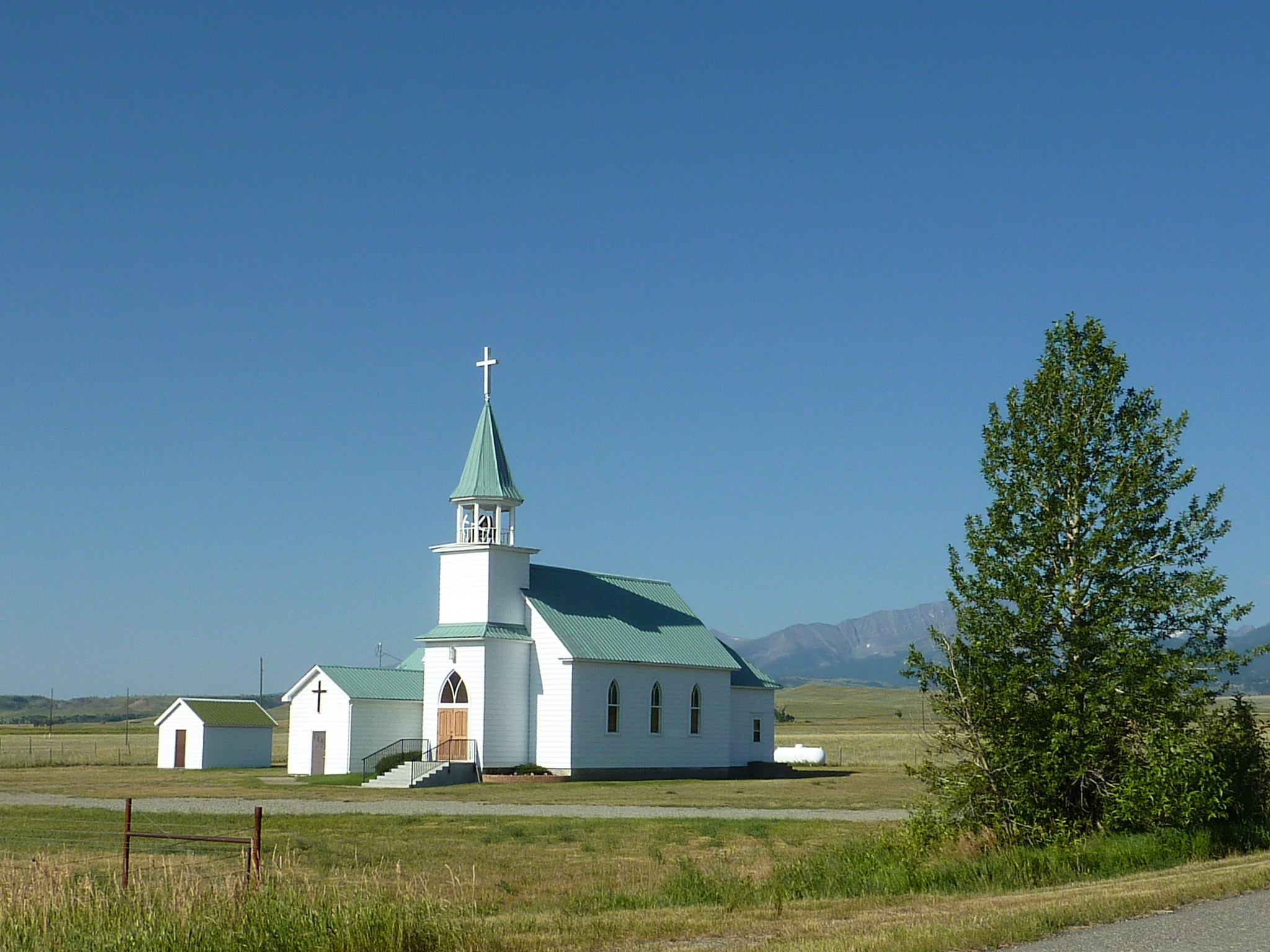 Melville Lutheran Church, Sweet Grass County, Montana, USA